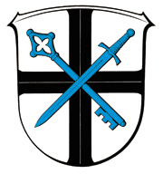 Coat of Arms of Freigericht